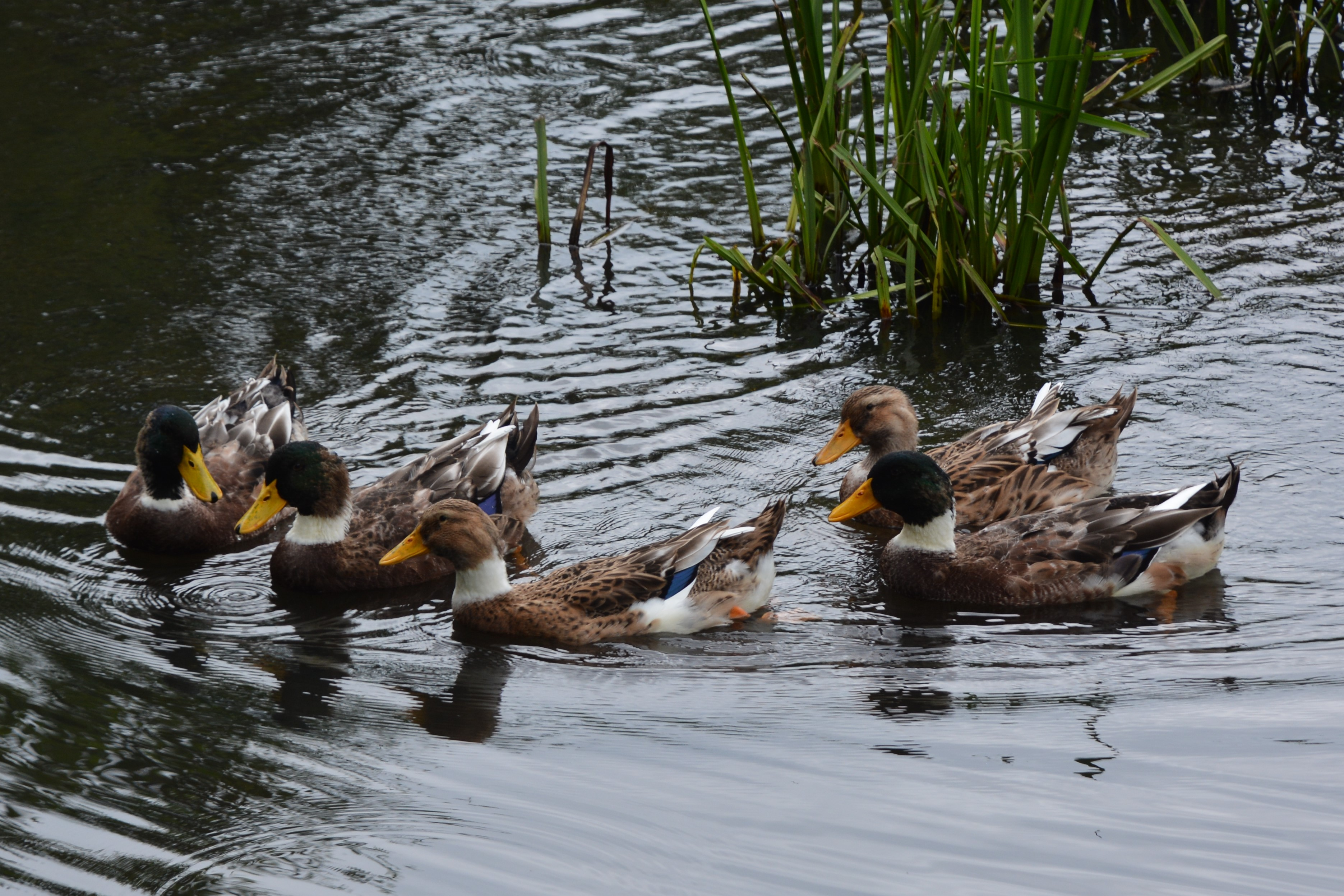 Blekingeankor